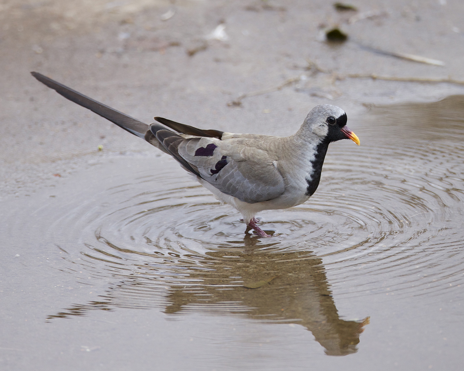 A Namaqua Dove near Kambi ya Tembo, Arusha, Tanzania.